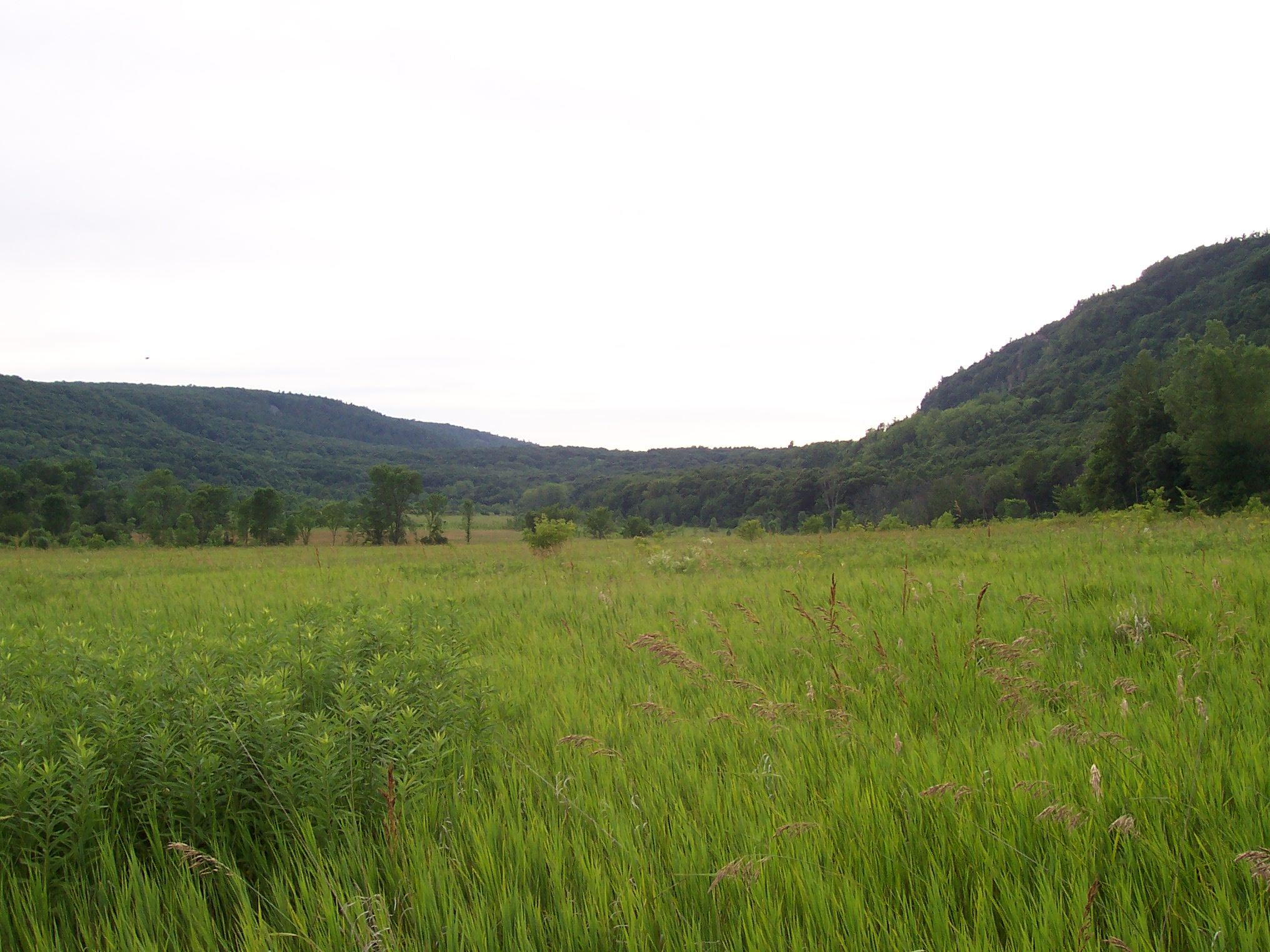 Picture I took of terminal moraine in Devil's Lake State Park.